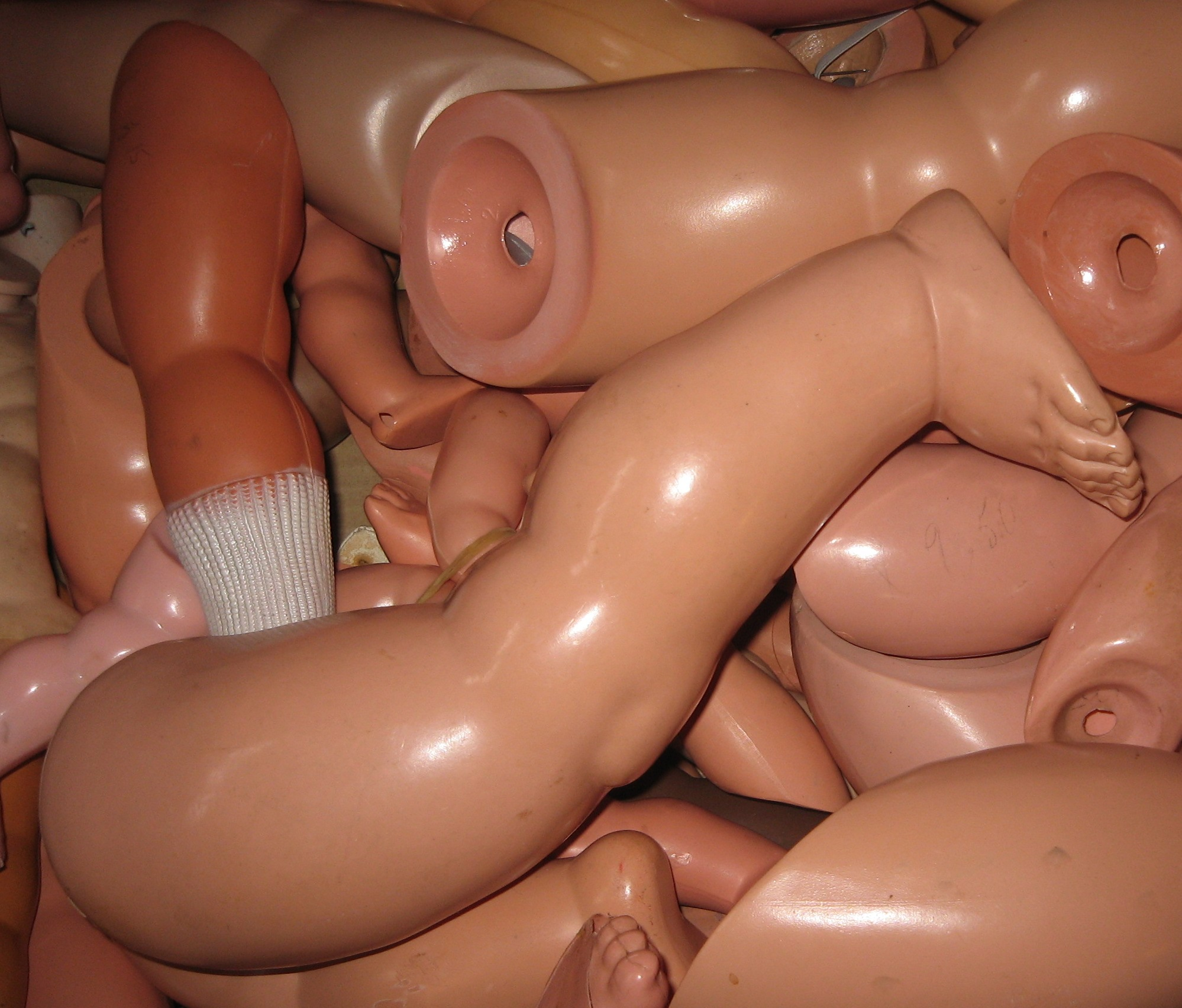 Body, organ, leg, doll